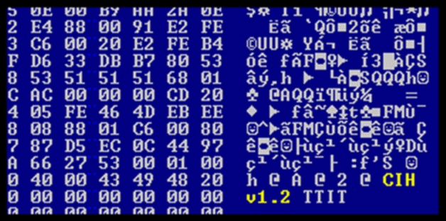 Schermata di un PC infetto